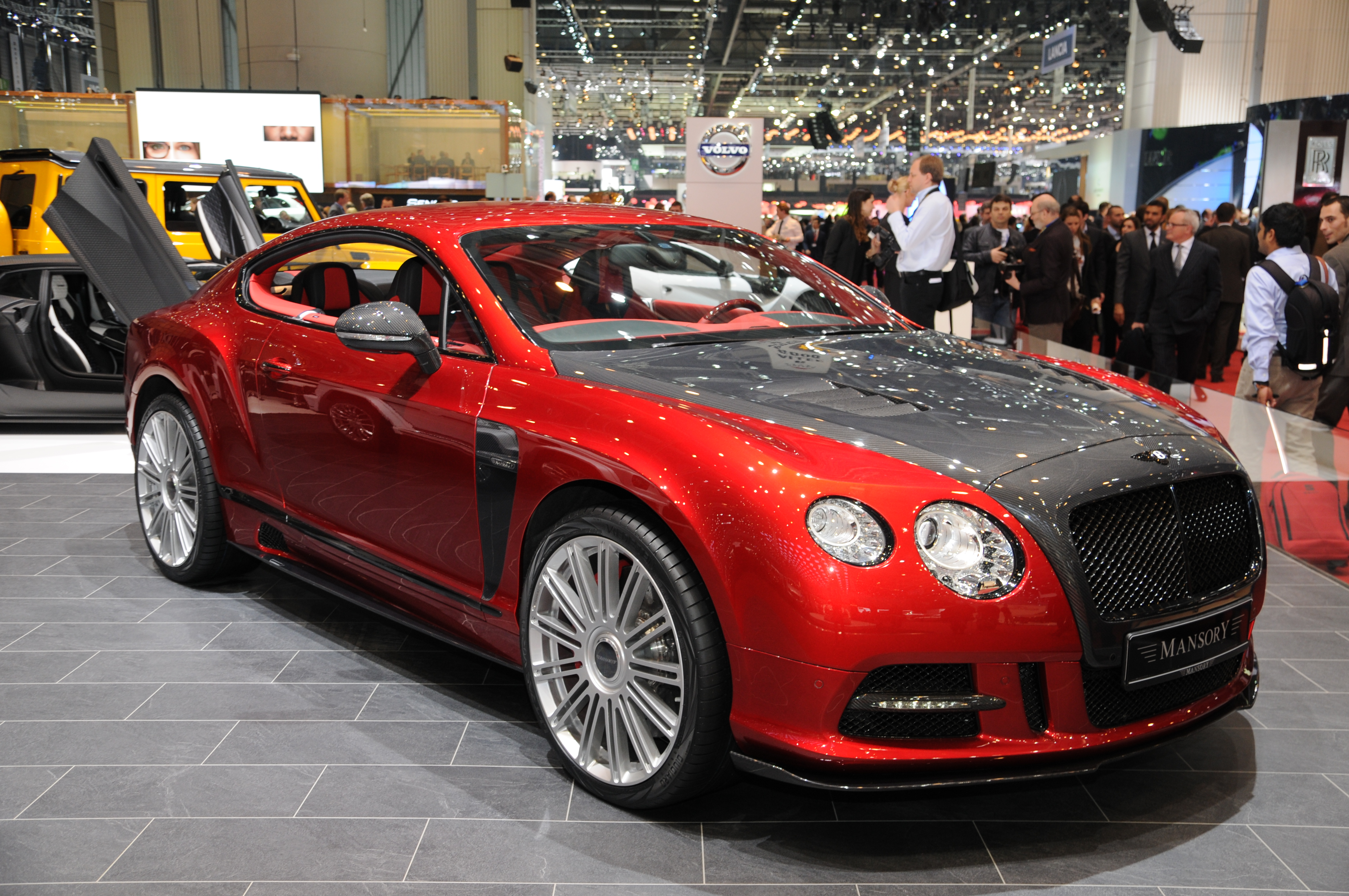 Geneva Motor Show 2013 (photos taken on the first press day)